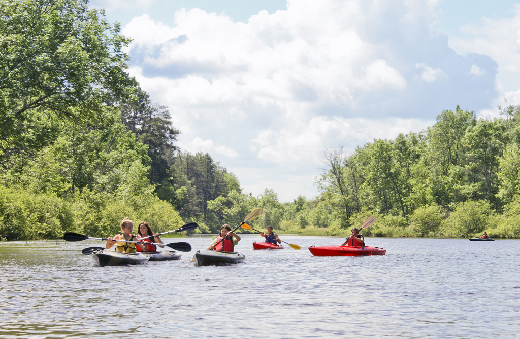 Lac Courte Oreilles Boys and Girls Club paddlers on the Namekagon River near Big Bend Landing.